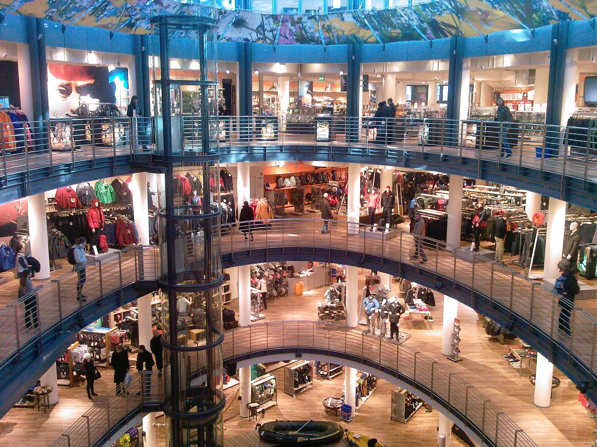 Olivandenhof interior, Köln